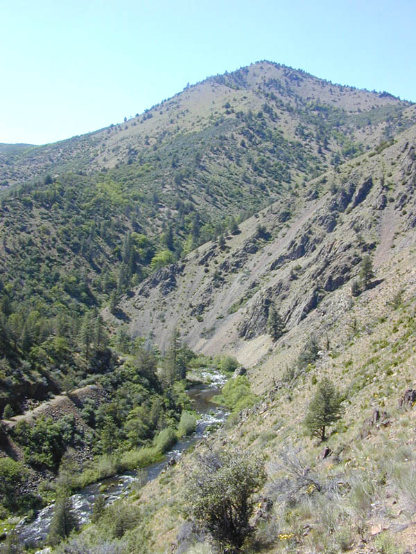 The Shasta River near Hawkinsville (State Hwy. 263) in northern California